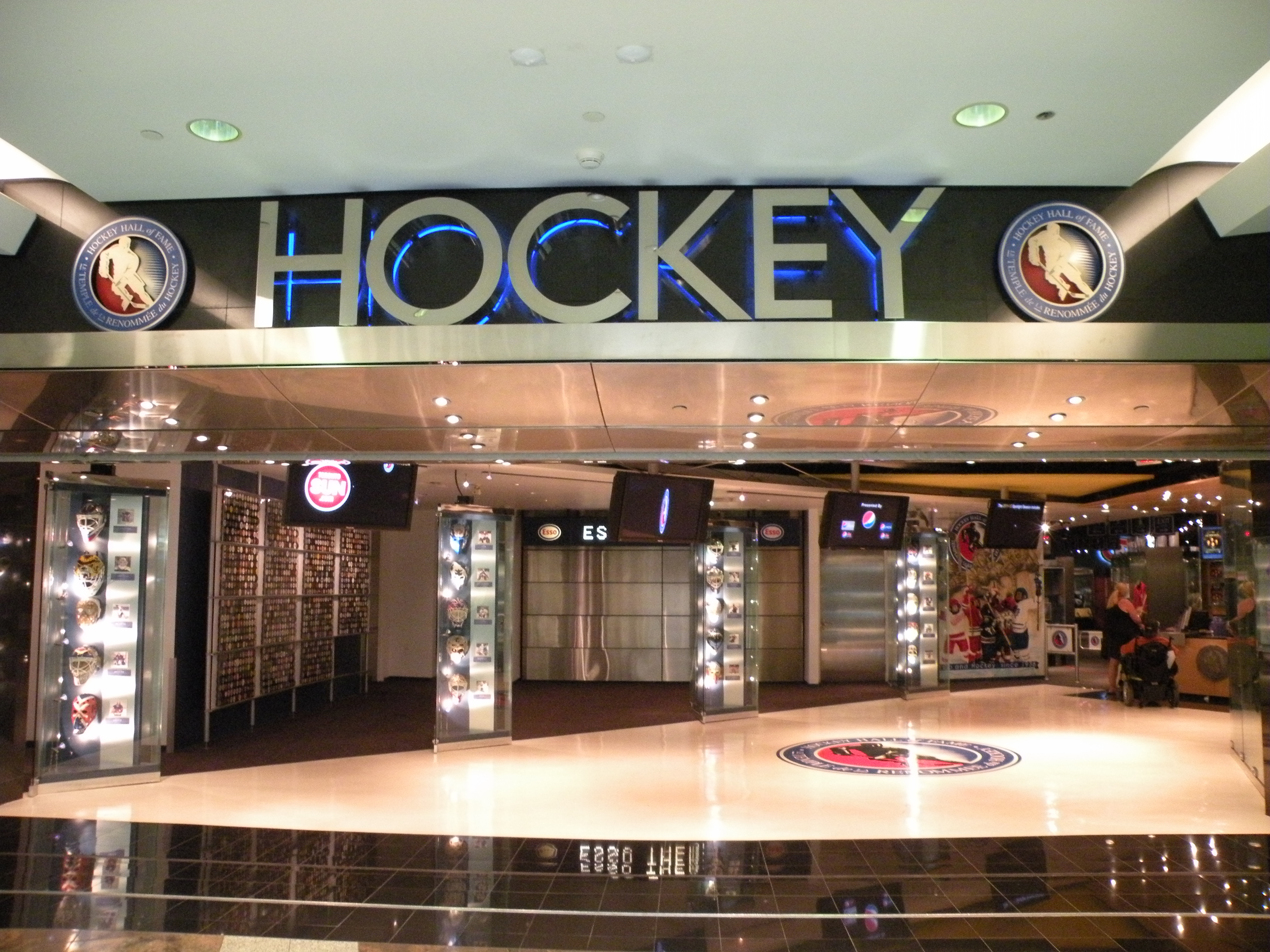 Lobby of the Hockey Hall of Fame.